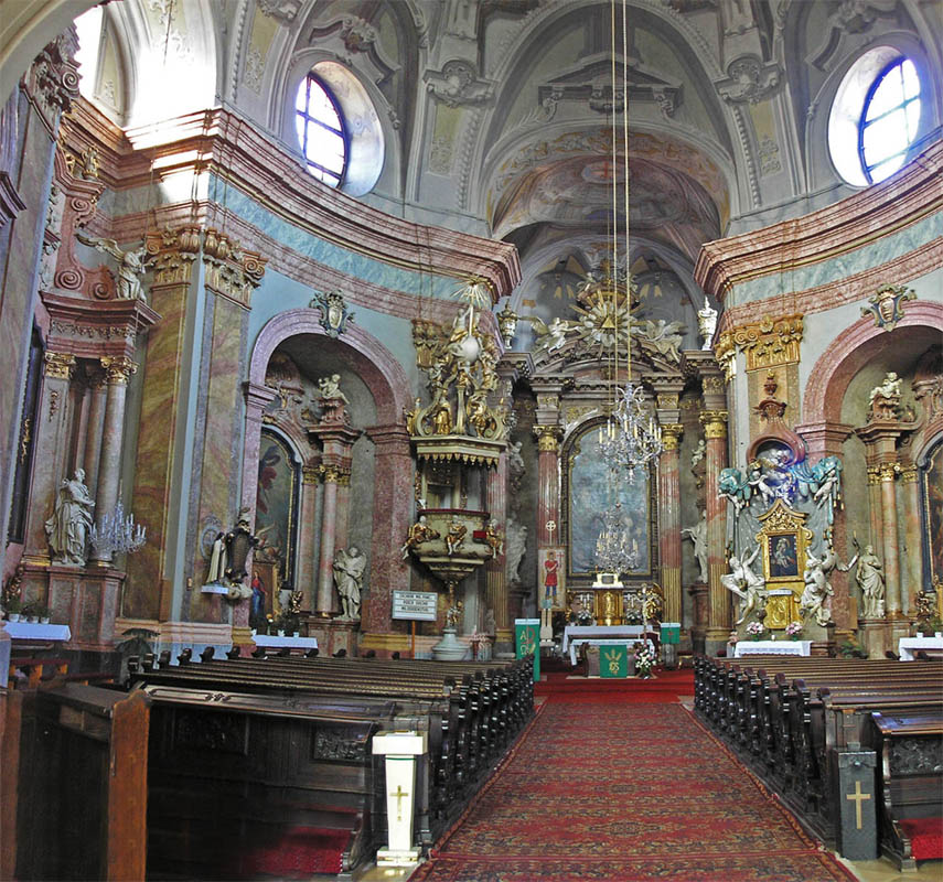 The trinitary church in Bratislava, SlovakiaSlovenčina: kostol trinitárov v Bratislave